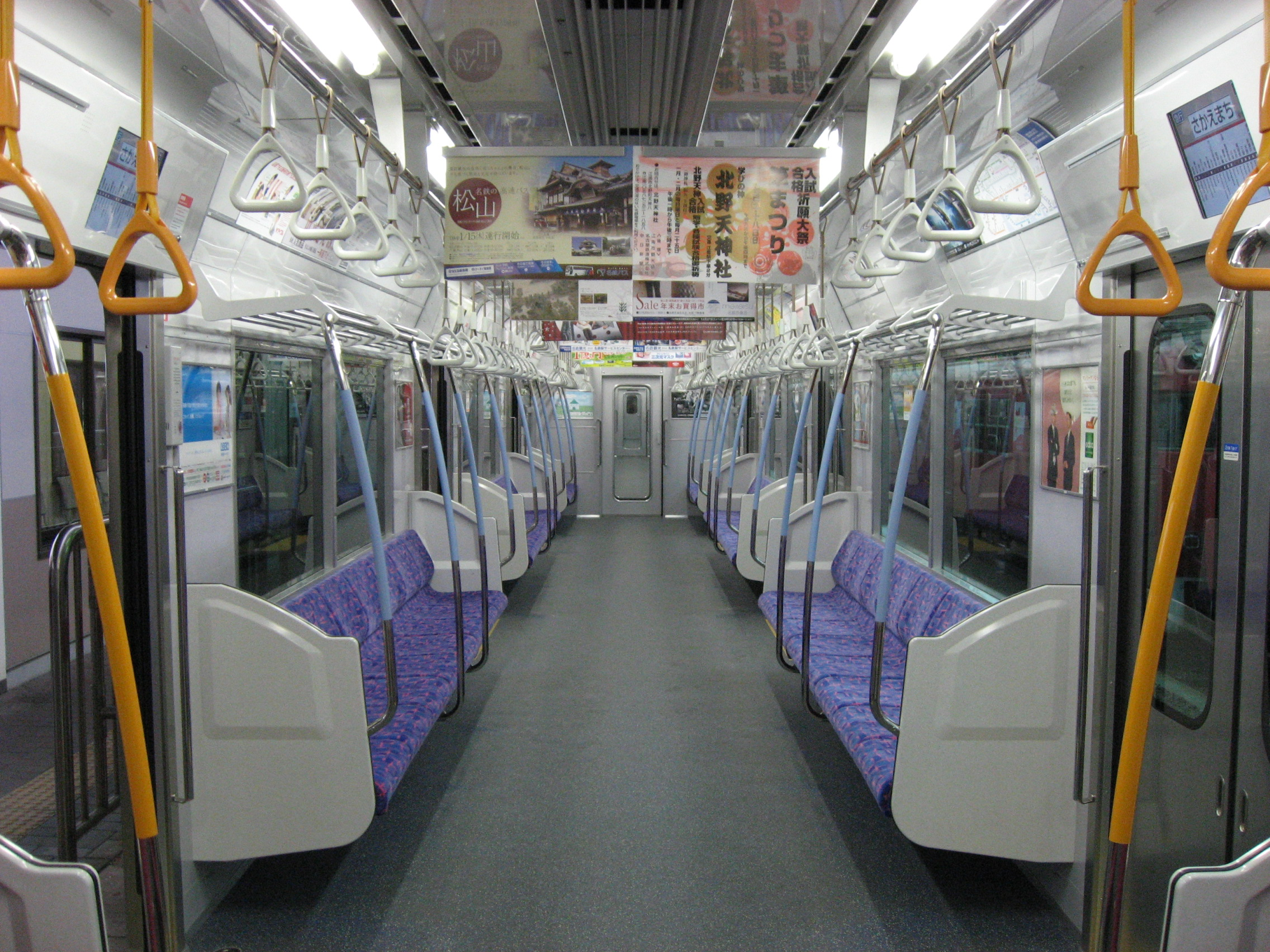 Meitetsu 4000 series EMU interior view, 25 December 2008